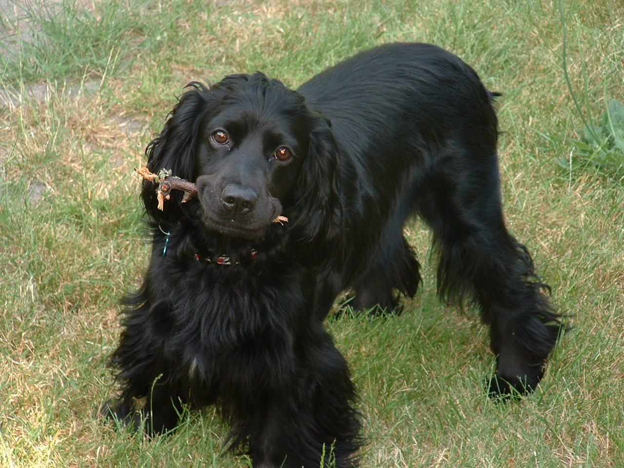 English Cocker Spaniel